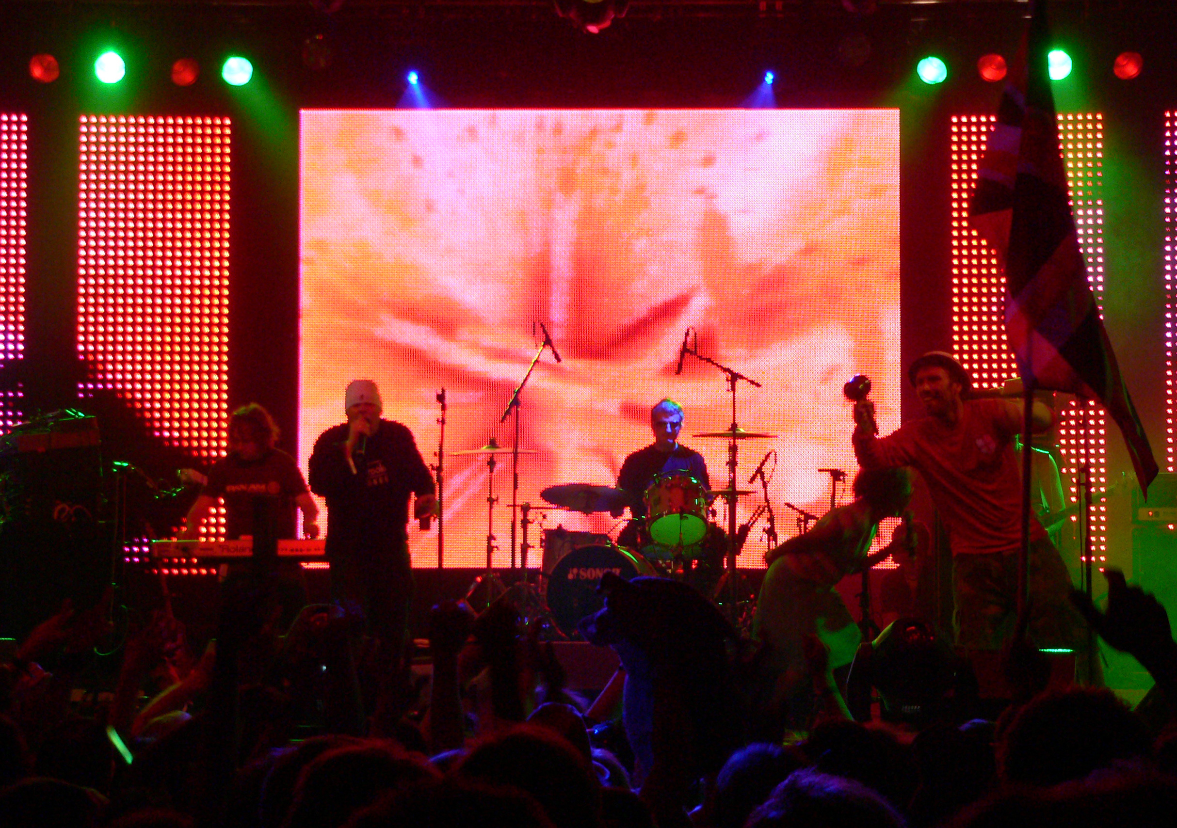 British rock band Happy Mondays on stage